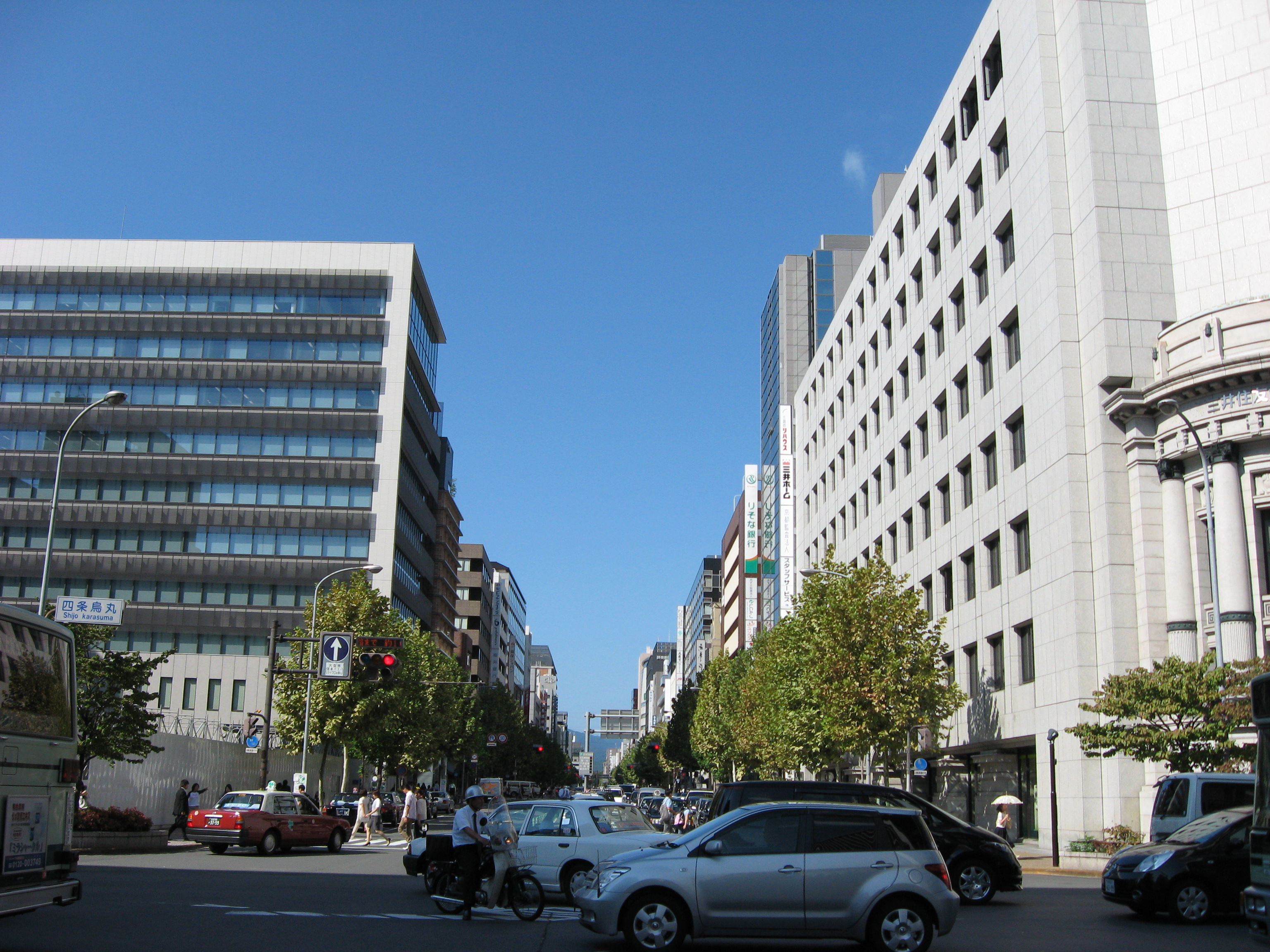 Shijo Karasuma North Side, by Shimogyo, Kyoto, Japan.